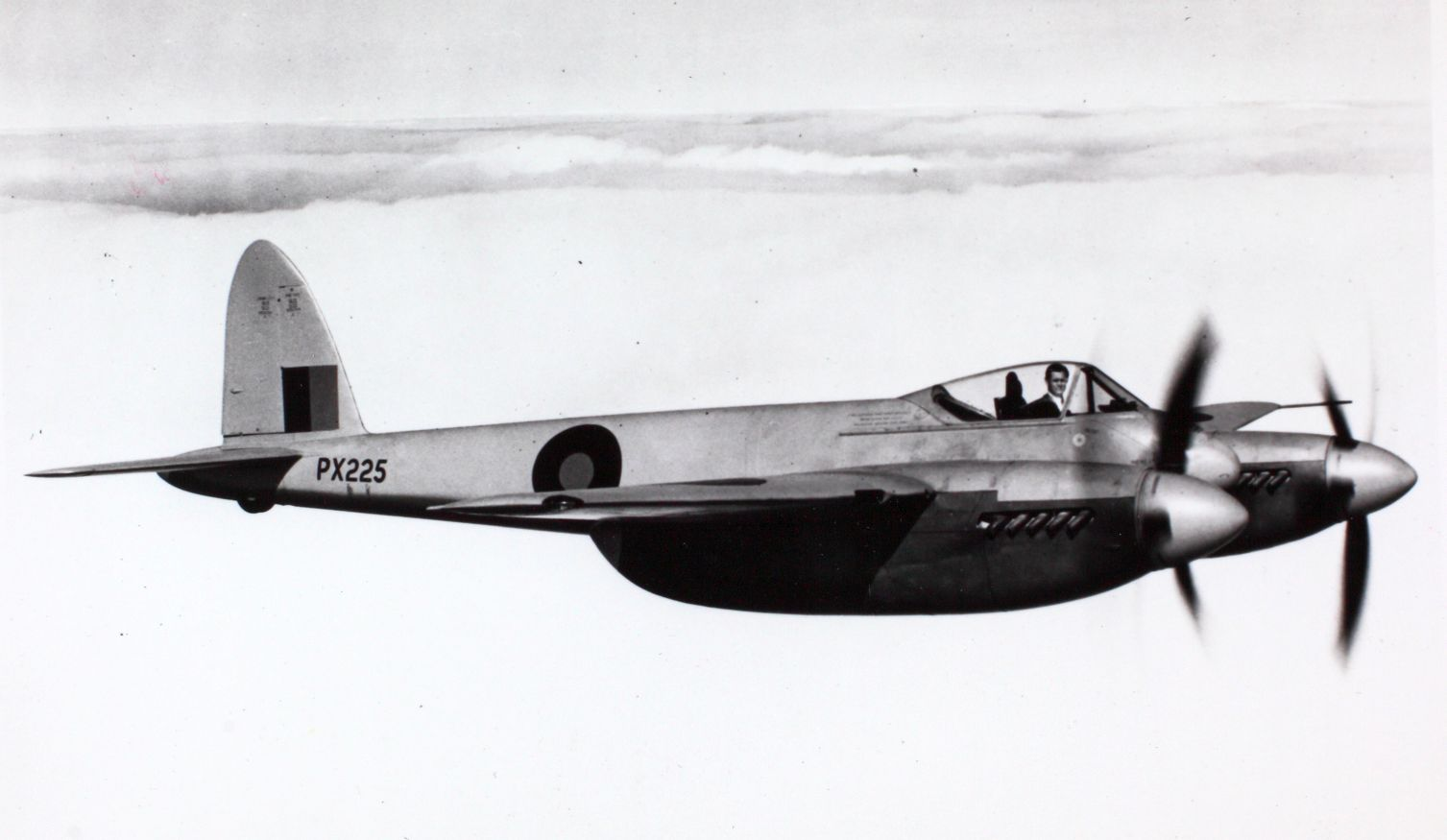 Image from the Charles Daniels Photo Collection album "British Aircraft." SOURCE INSTITUTION: San Diego Air and Space Museum Archive